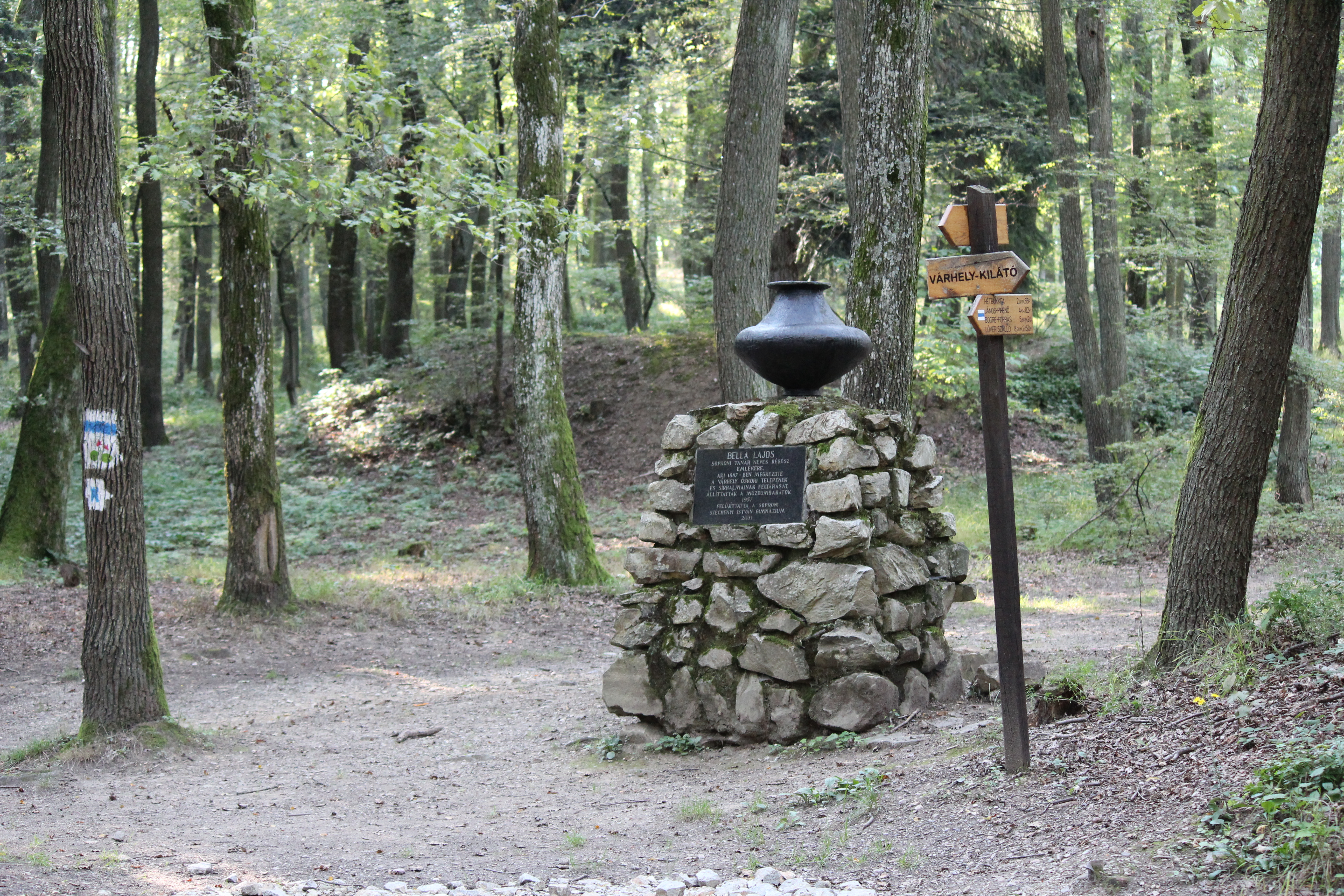 Monument of Bella Lajos on Várhely (Sopron, Hungary). Sculptor Ernő Szakál.